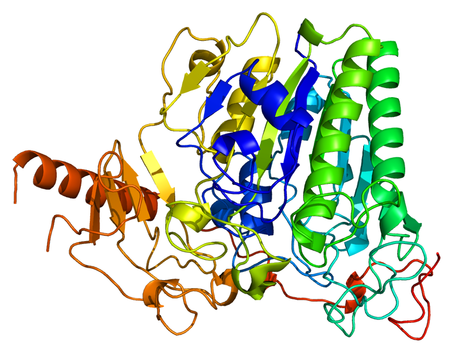 Structure of the ARSA protein. Based on PyMOL rendering of PDB 1auk.